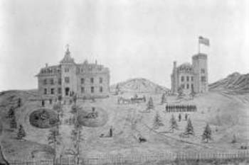 "Jarvis Hall & School of Mines" - 319 Colorado University Schools 1871